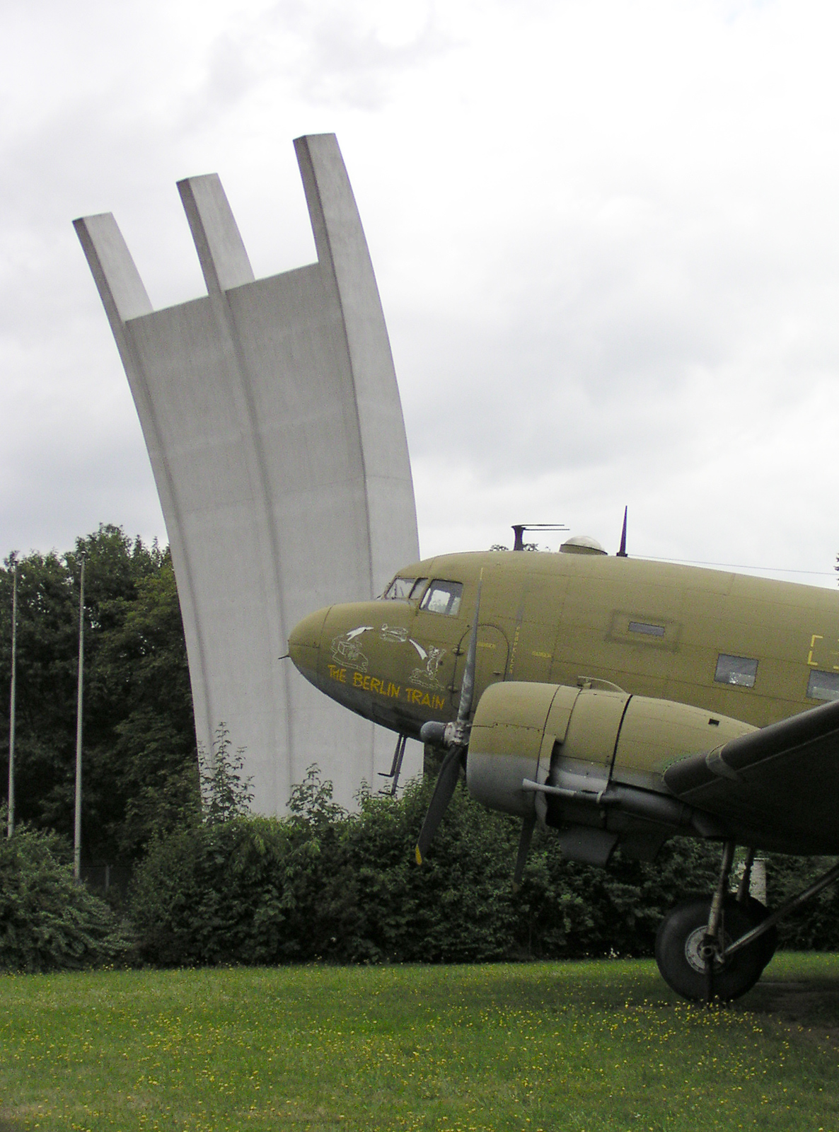 Description: Airlift memorial at Rhein-Main Air Base with Douglas C-47B (43-49081) in foreground, July 2005. Photographer: Arcturus Licence: GFDL + cc-by-sa-2.0-de